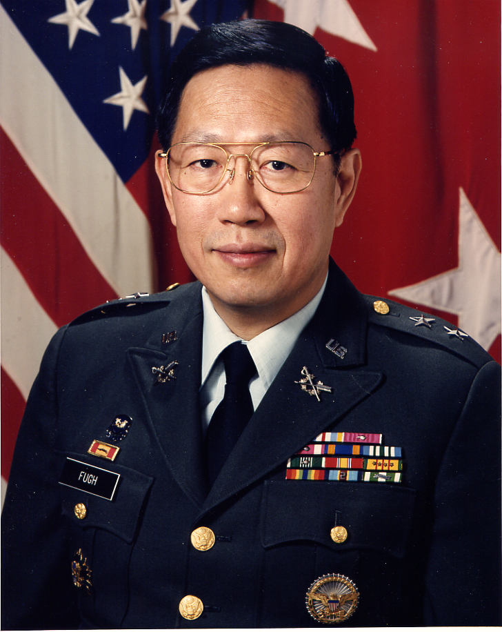 John Fugh official major general (2 star) portrait.